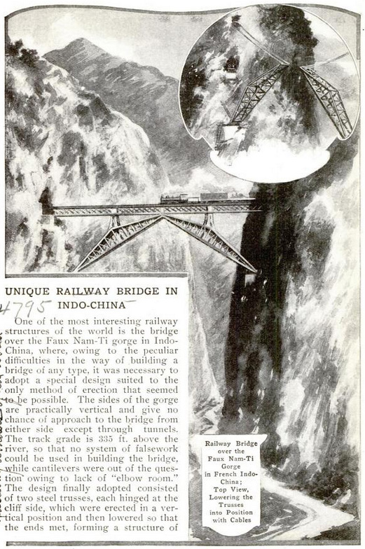 Illustrated article on the construction of the Faux Nam-Ti Bridge in Yunnan. Page 735 of Popular Mechanics Magazine, November 1913.